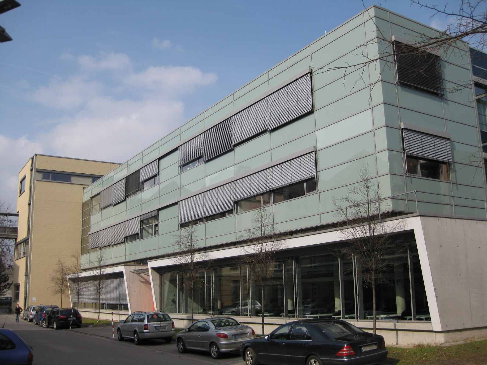 University library of university hospital Mannheim. Architects: Schädler & Zwerger Leinfelden-Echterdingen